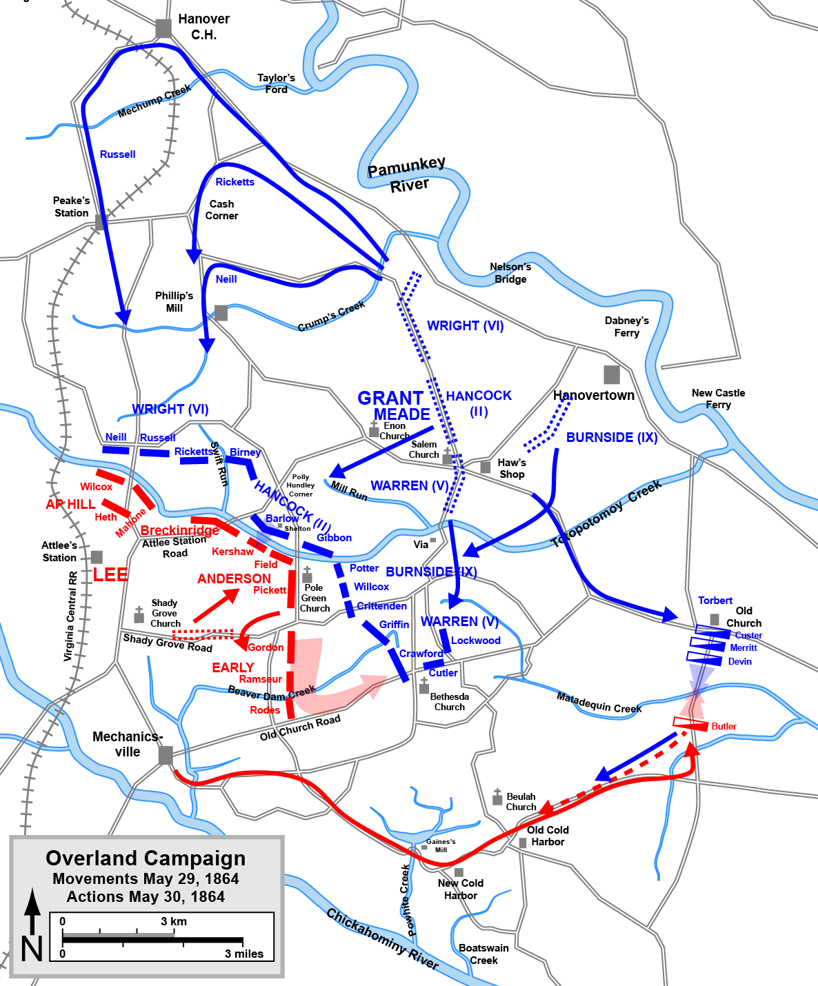 One of a series of maps of the Overland Campaign of the American Civil War, showing the movements that led to the battles of Totopotomoy Creek (Bethesda Church) and Old Church. Drawn in Adobe Illustrator CS5 by Hal Jespersen. Graphic source file is available at Attribution: Map by Hal Jespersen